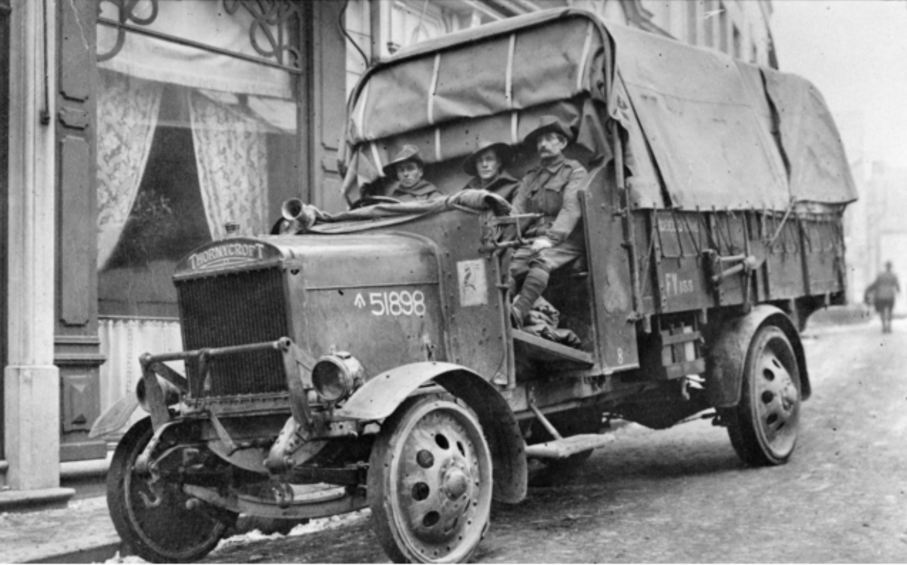 8811 Driver (Dvr) John Oliver Baird, 4th Australian Motor Transport Company and two unidentified soldiers in a Thornycroft lorry, serial number 51898. A kookaburra (probably a company emblem) is also painted on the side on the truck. A butcher of Truro, SA, prior to enlistment, Dvr Baird embarked initially with service number 5953 and with the 4th Light Horse Brigade Train. He later transferred to the 14th Company AASC and then 20th Company AASC, then K Supply Column before being transferred as a driver with the Motor Transport Company in late 1917. His service number changed at that point to 8811. On 7 October 1918 he was promoted to Lance Corporal. L Cpl Baird left England for return to Australia in July 1919.